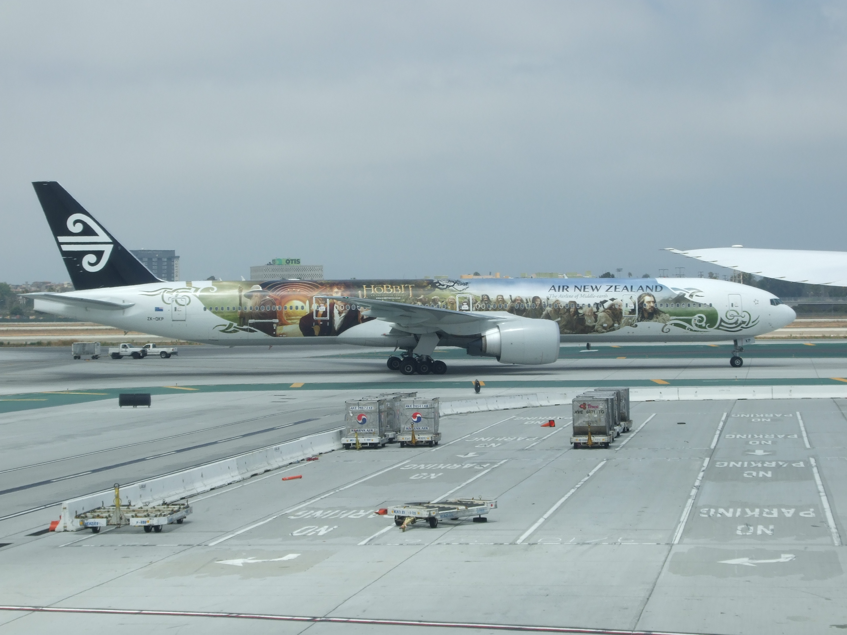 An Air New Zealand Boeing 777-319/ER aircraft in "hobbit design" at LAX.